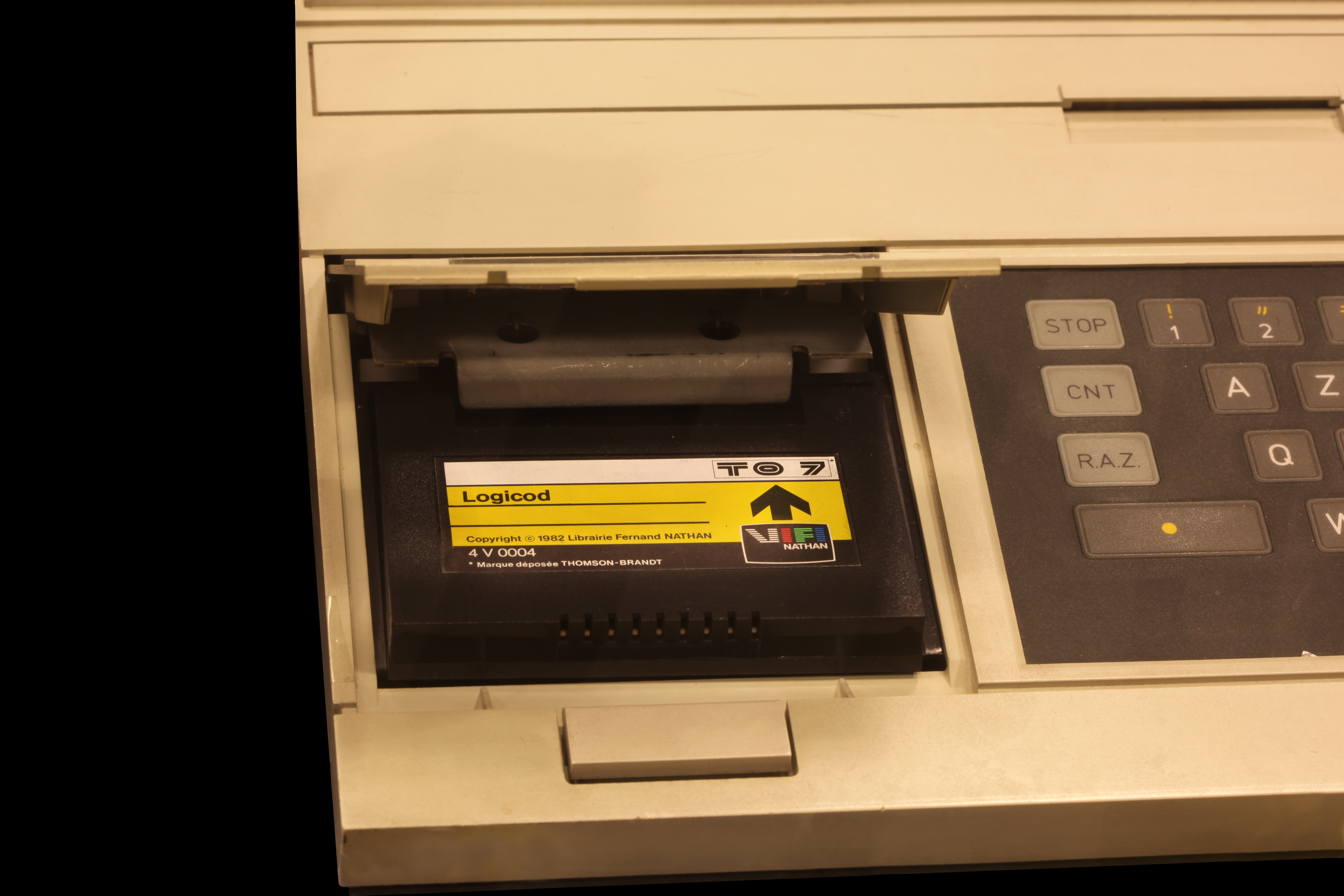 Thomson TO7. On display at the Cité des Sciences et de l'Industrie